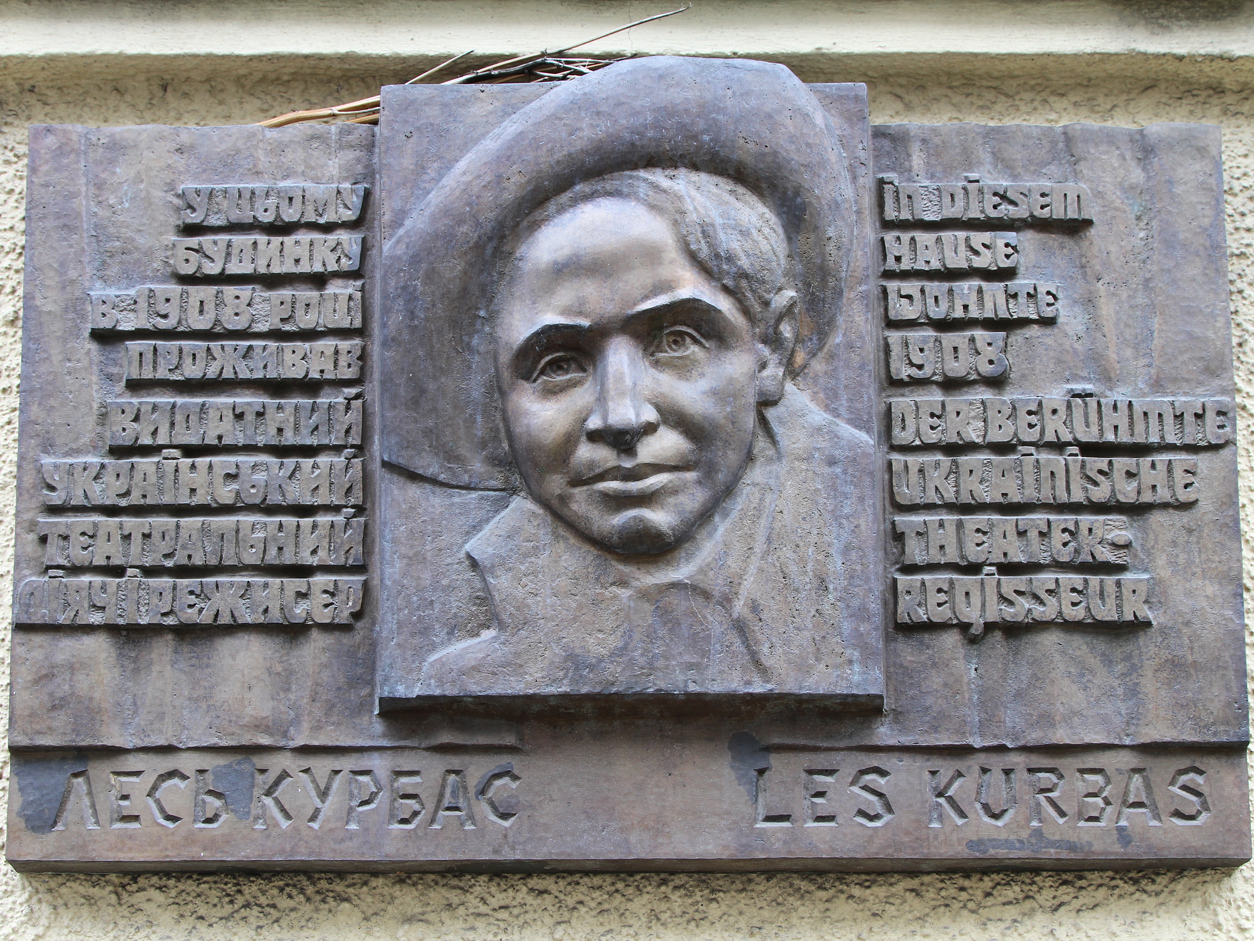 Memorial plaque for the ukrainian actor and director Les Kurbas in the Strozzigasse in Vienna.